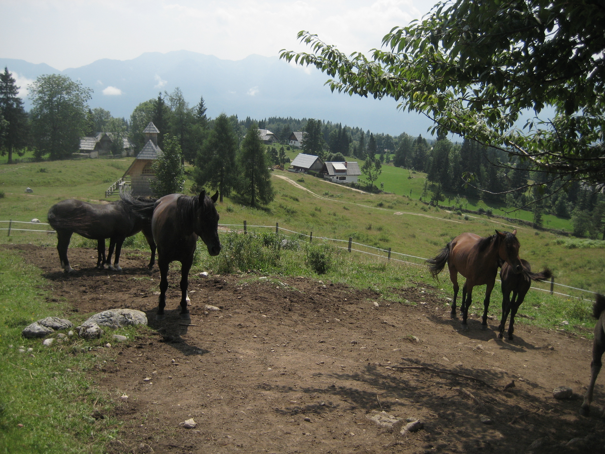 Uskovnica, dairyman meadow on foresty plateau Pokljuka, Slovenia.